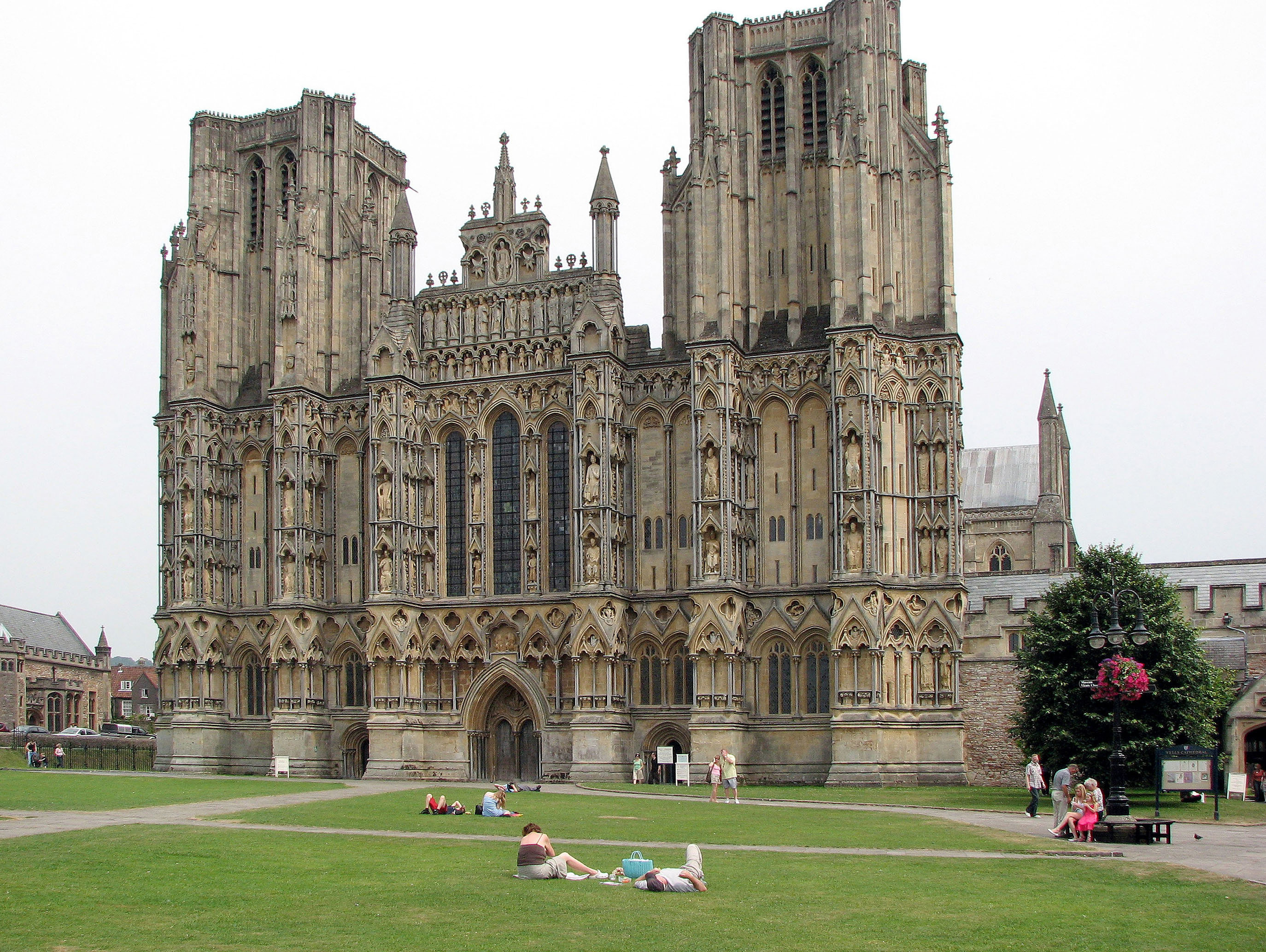 The west front of Wells Cathedral, Wells, England. Photographed by Adrian Pingstone in July 2006 and placed in the public domain.